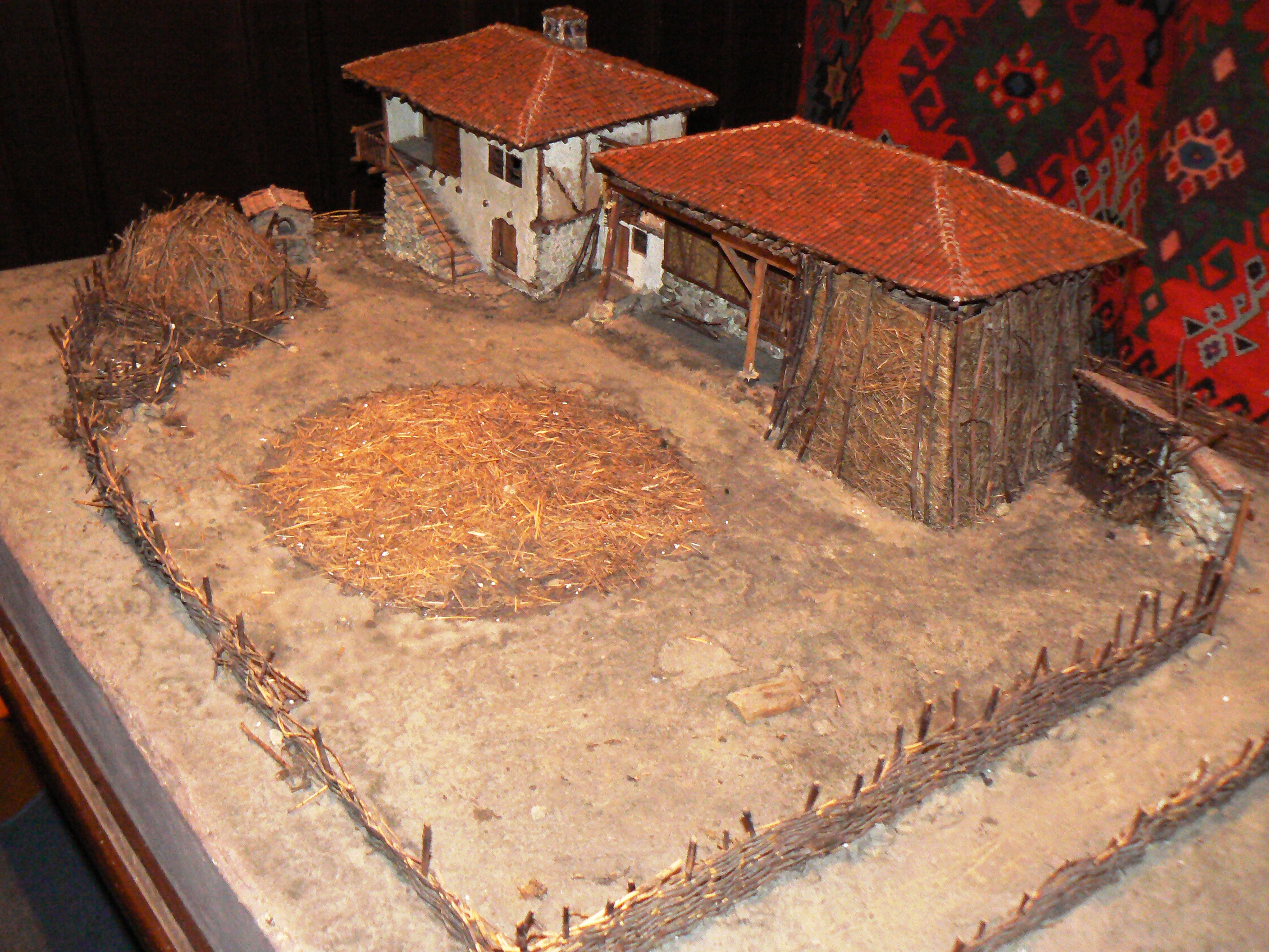 A model of traditional Bulgarian house, exhibits of the National Ethnographic Museum (unknown region)